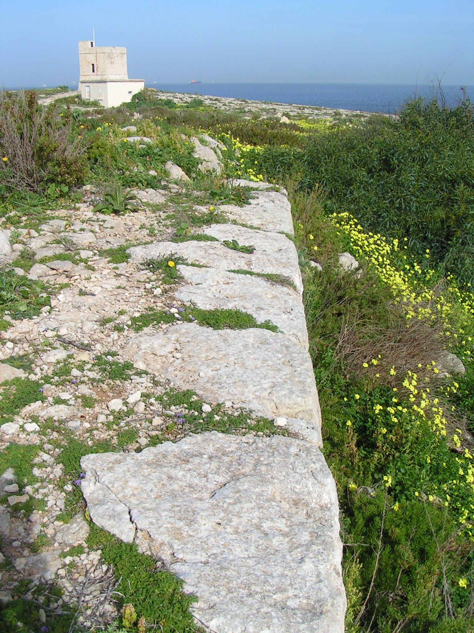 Parapet of East battery wall This media is about Maltese cultural property with inventory number 01381.